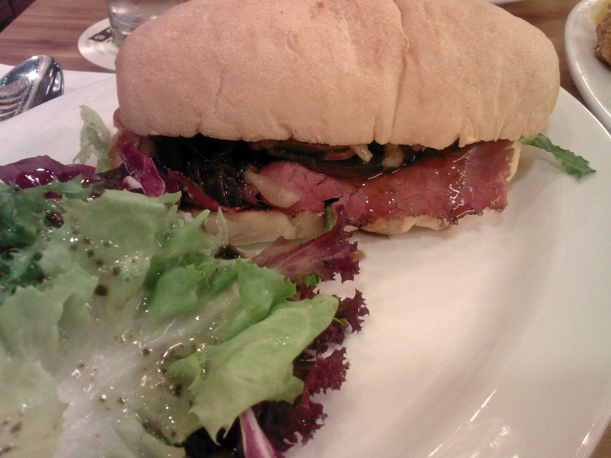 Beef pastrami served in Ciabatta. Beef Pastrami in Ciabatta.